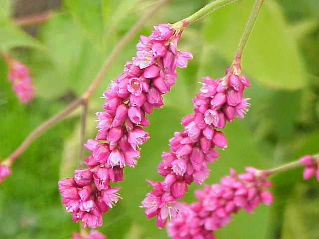 Species: Polygonum orientale Family: Polygonaceae Image No. 1